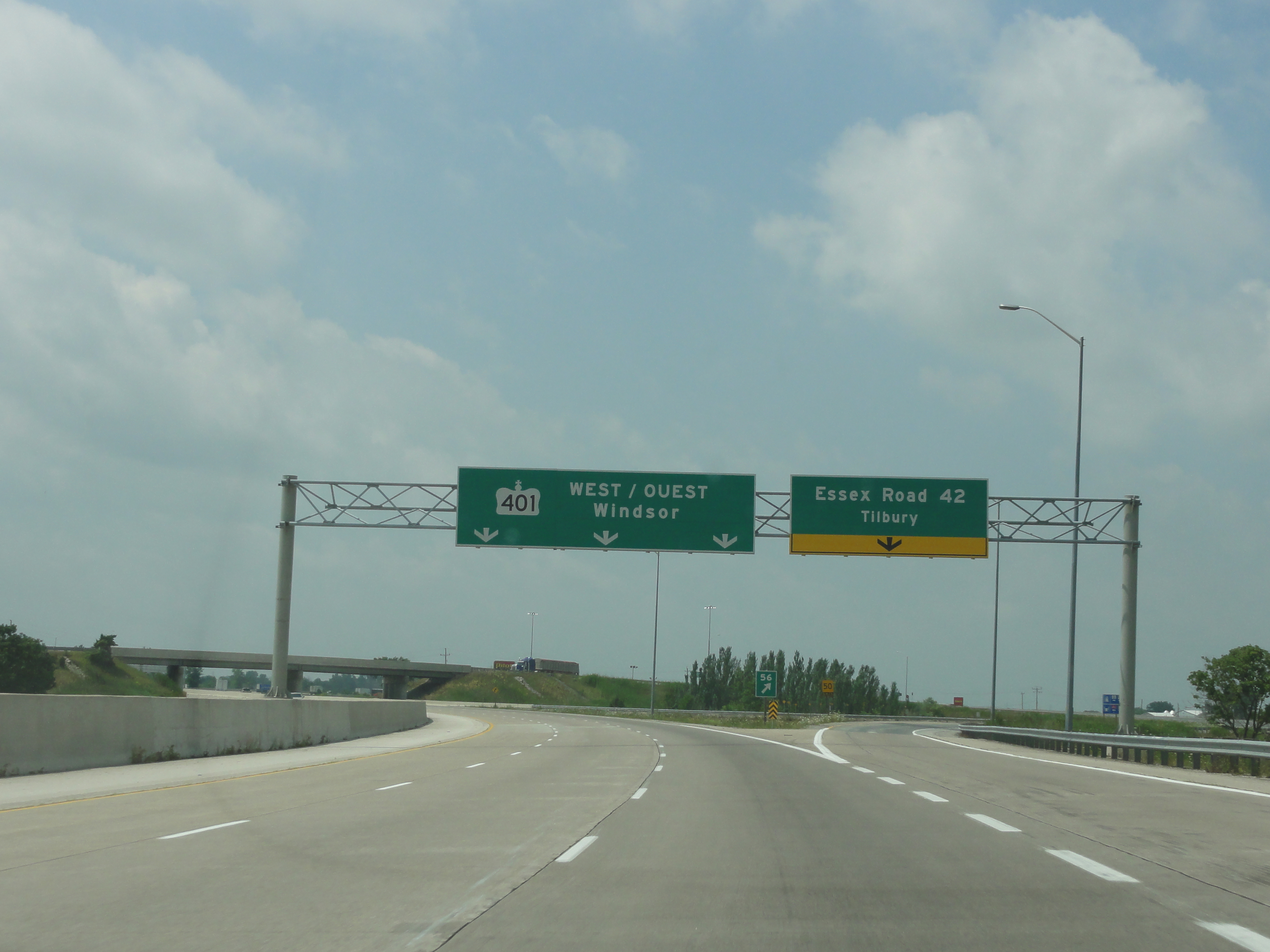 Highway 401 near Tilbury, Ontario, showing the highway's new 6 lane span and concrete median. This is the only part of the 401 that has a concrete surface.